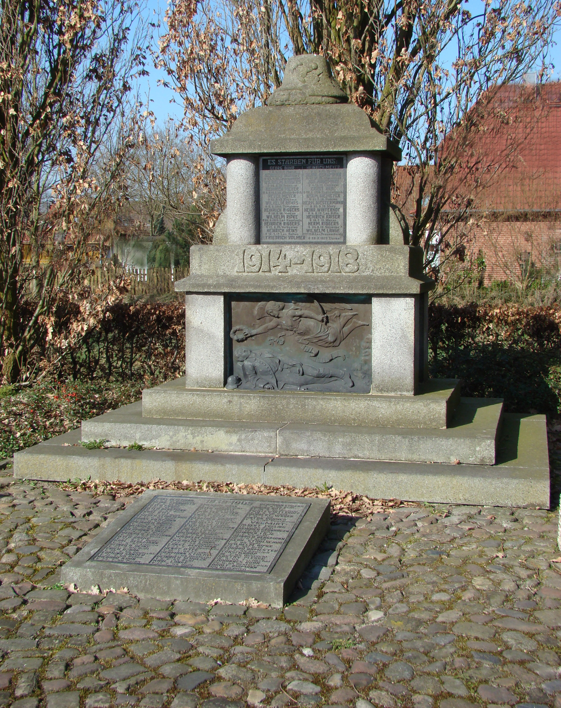 1914-18 and 1939-45 war memorial in Baven, Lower Saxony, Germany